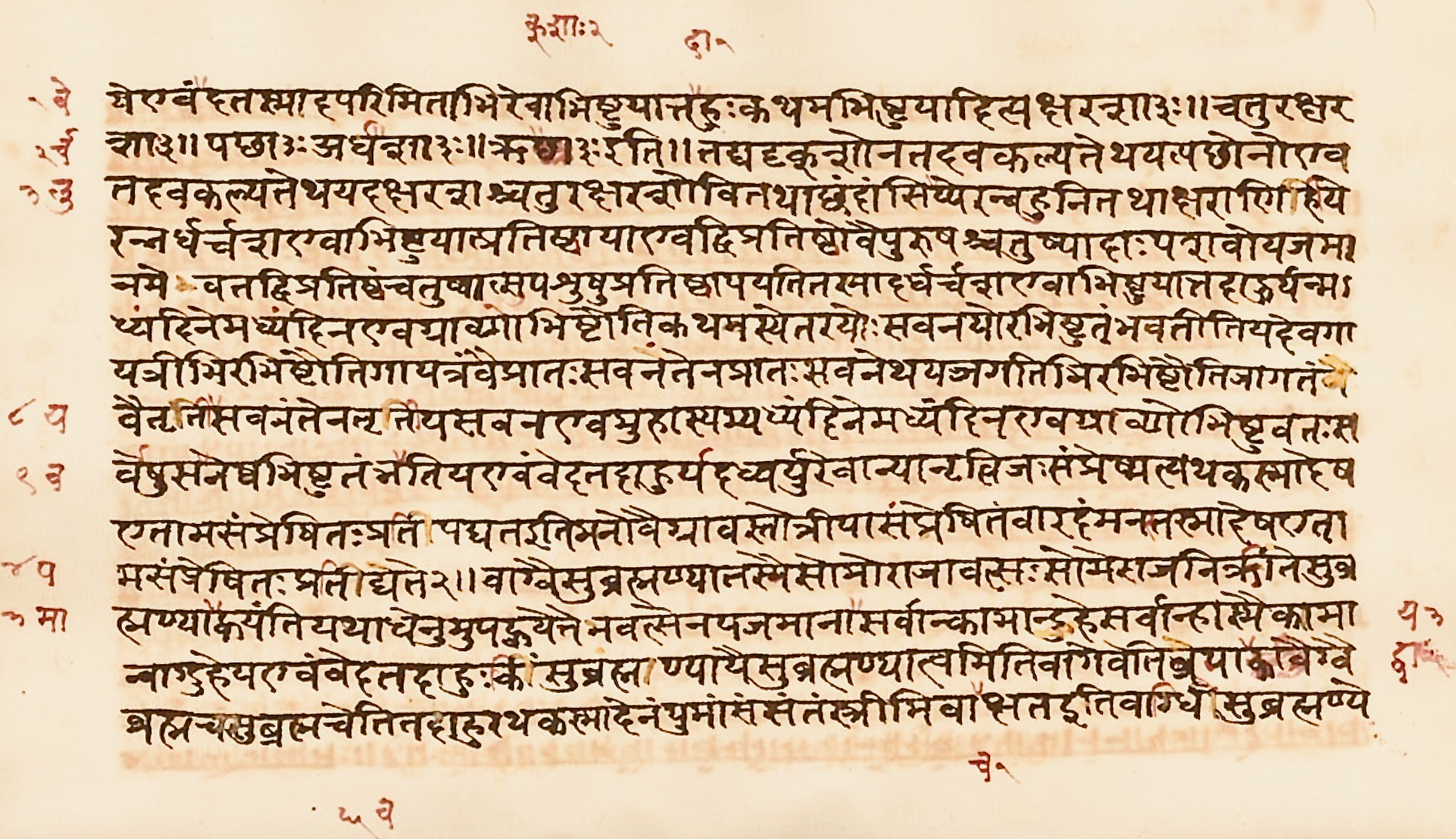 The Brahmanas are a layer of texts in the Vedas, and they belong to the period 900–700 BCE. The Aitareya Brahmana is a pre-5th century BCE text of the Vedic era, with some dating it to c. 600 BCE. It covers various matters relating to Vedic rituals, how to conduct them properly, and discusses the various meanings of the samhita hymns. The above photo is of a manuscript copied on paper c. 1827 CE, and is now MS 2164 of the Schoyen Collection, near Oslo, Norway. It is written in Sanskrit on paper, Devanagari script. This is a photograph of a two-dimensional manuscript copied in early 19th-century from a much older text. Therefore and PD-Art and PD-US-expired guidelines of wikimedia commons apply. Any rights I have as a photographer, I herewith donate to wikimedia commons under CC 4.0.